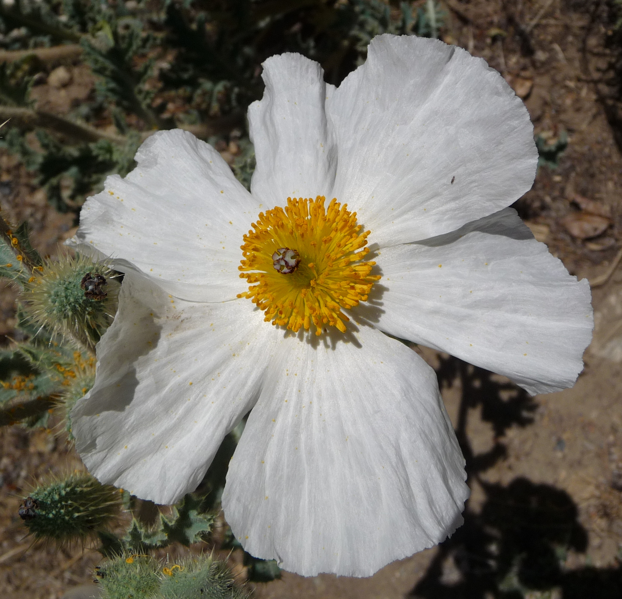 Argemone munita near Lee Vining Creek, Mono Lake Basin, California, USA